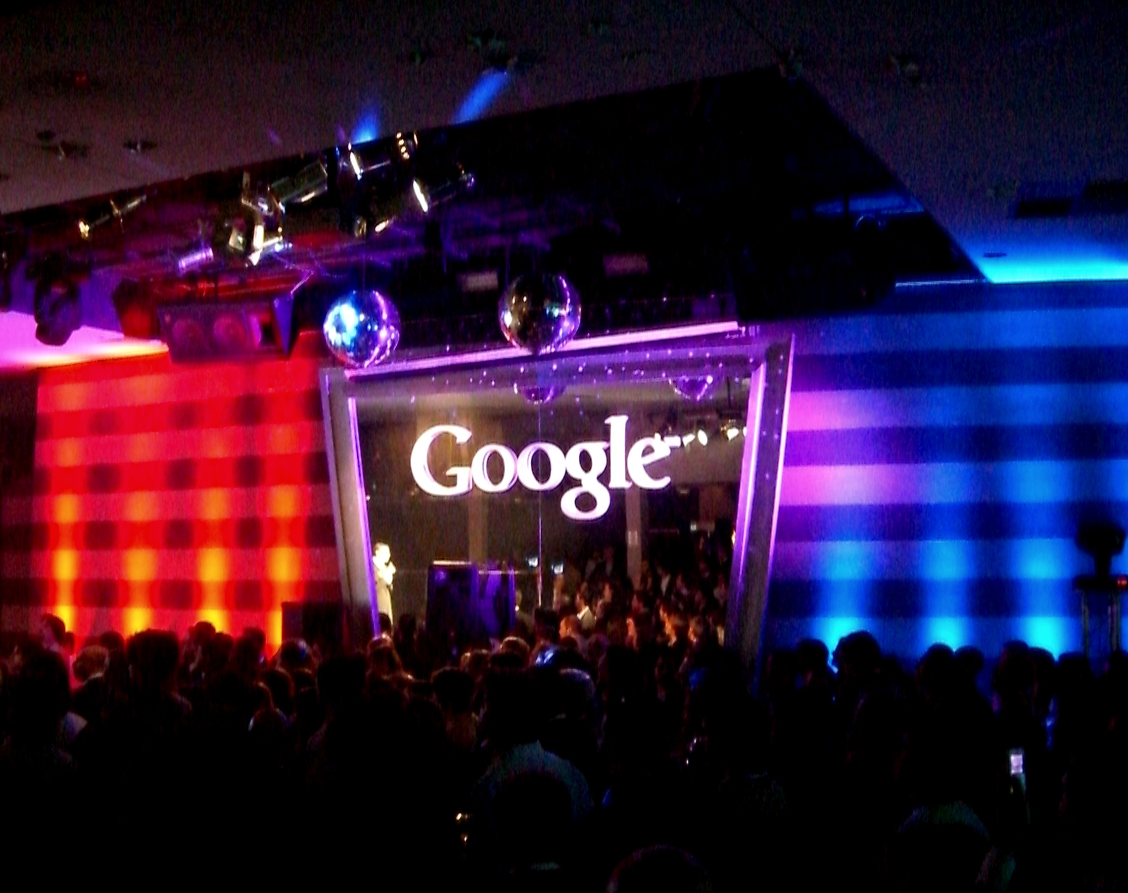 Google official headquarters opening in Buenos Aires (Argentina)